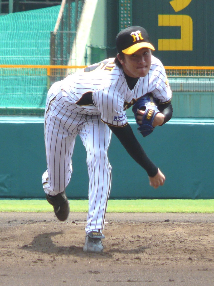 Naoto Tsuru, pitcher of the Hanshin Tigers, at Hanshin Koshien Stadium.